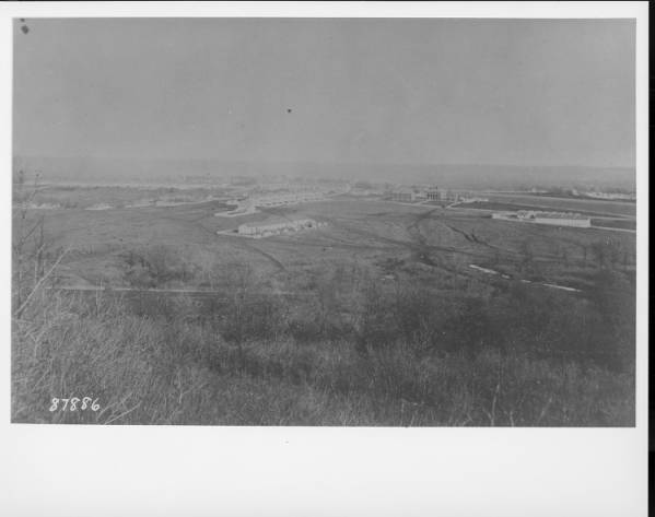 A view of Fort Leavenworth from Fort Sully (taken in 1864 or 1865)